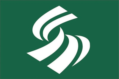 Flag of Shimada Shizuoka